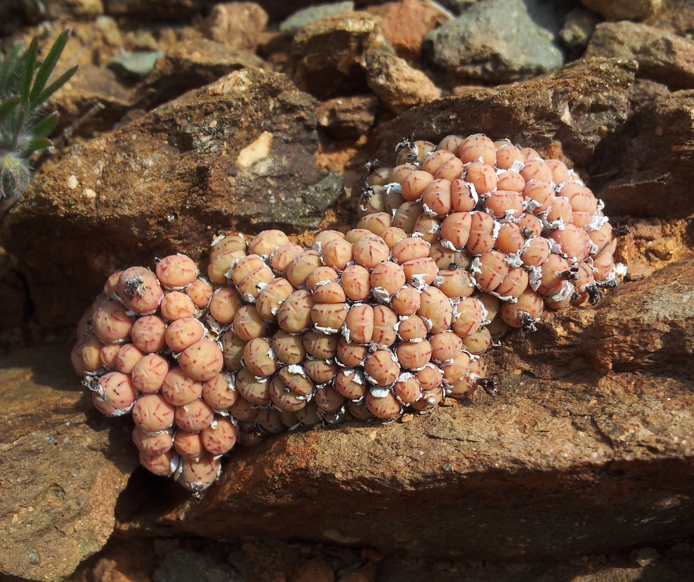 Conophytum minimum - rooinek laingsburg